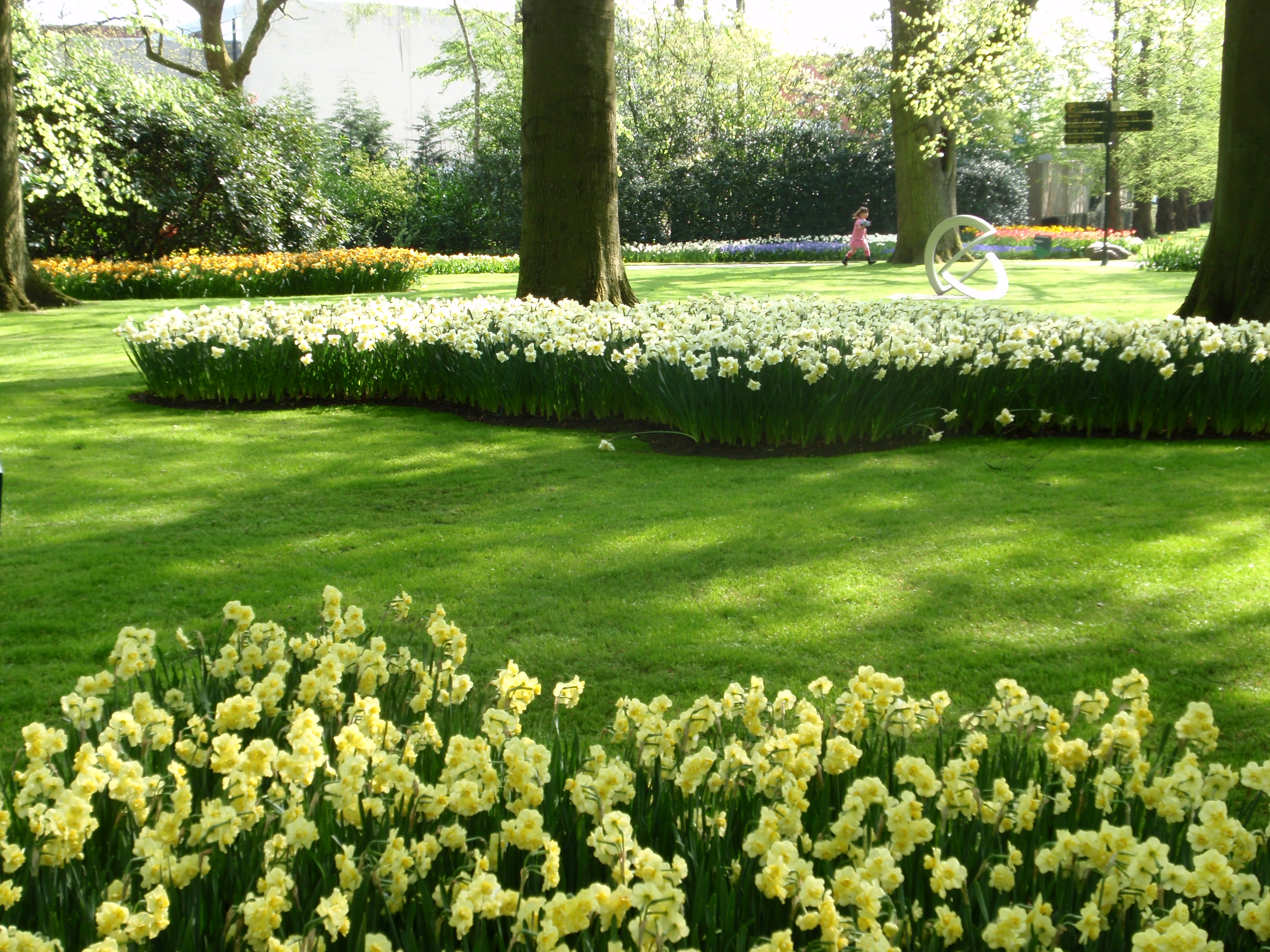 Keukenhof flowering (in Lisse, South Holland)